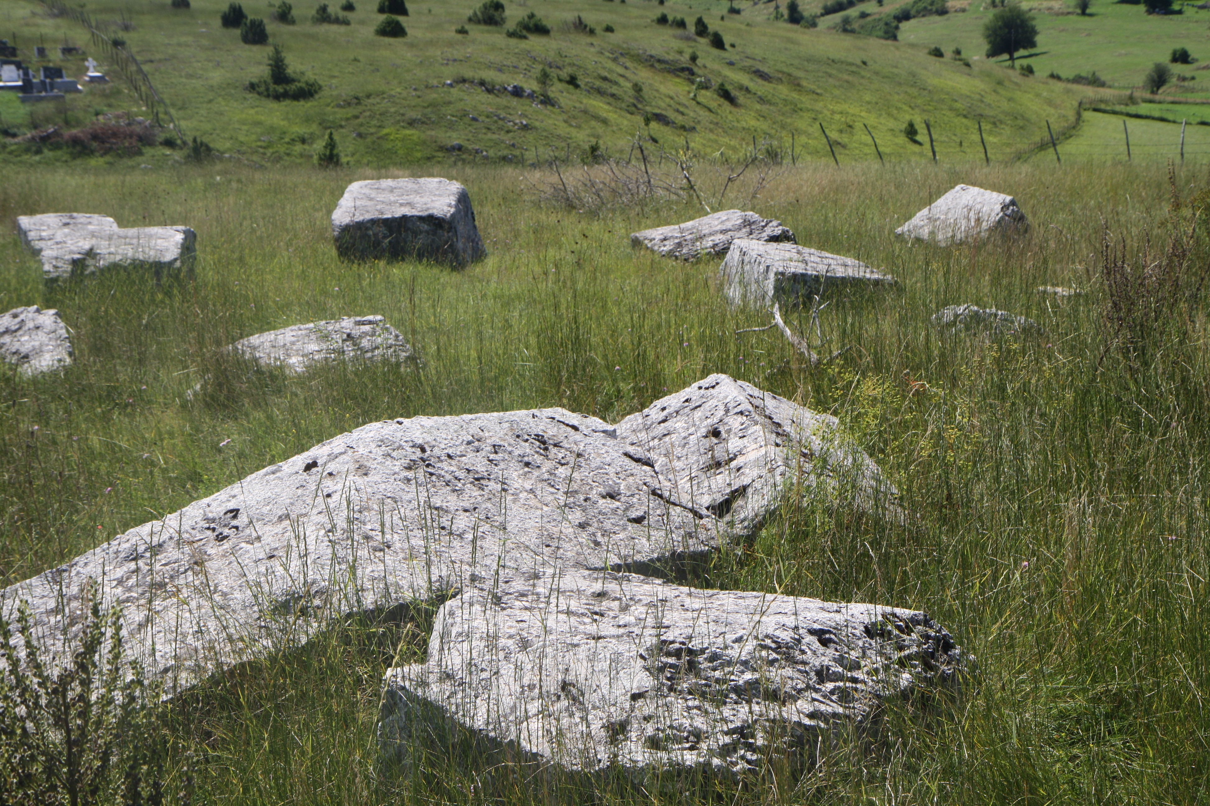 Српски (ћирилица): Стећци, Бјелосављевићи This image was uploaded as part of Trace of Soul 2016.